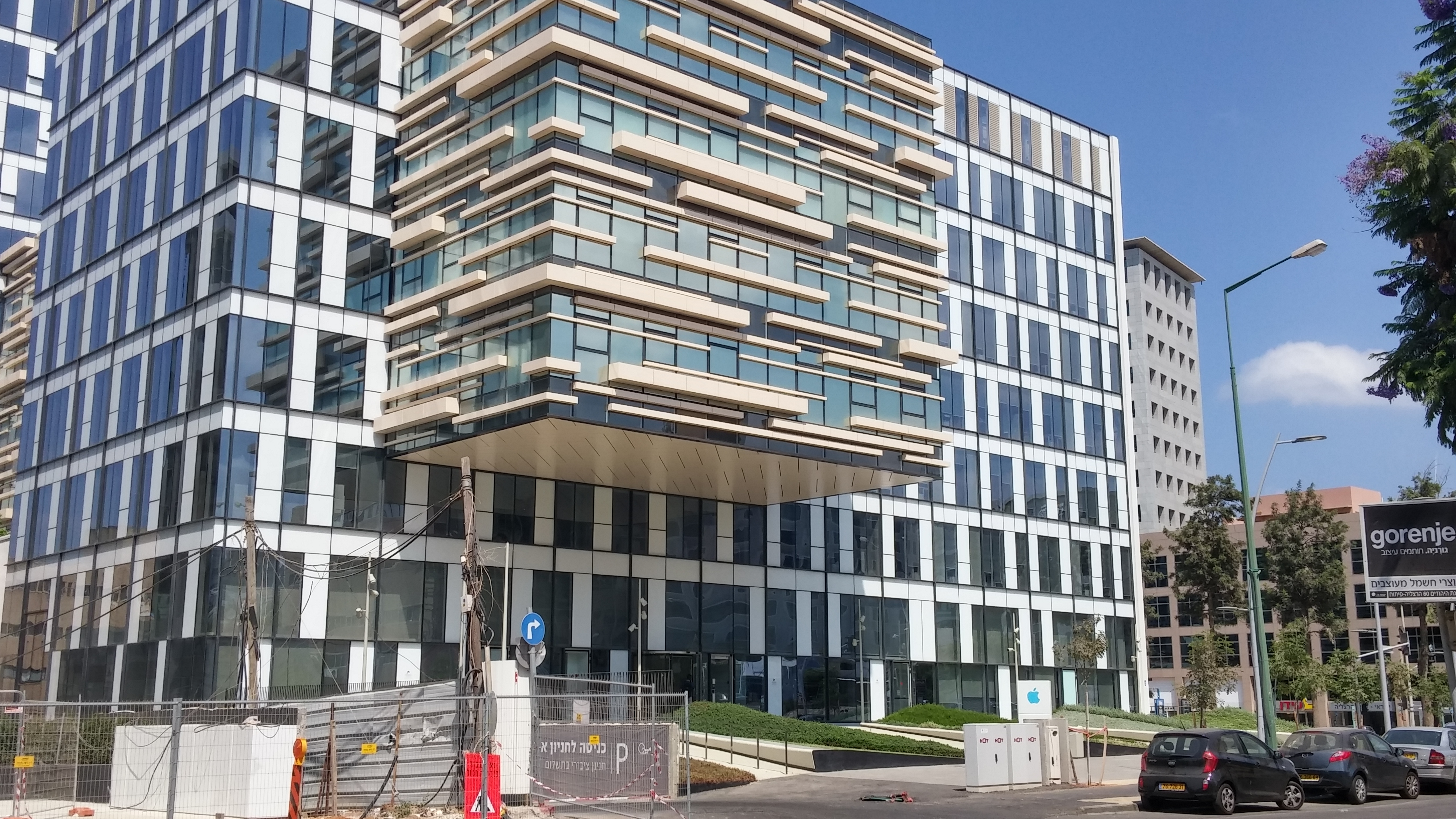 Apple house, Herzliya